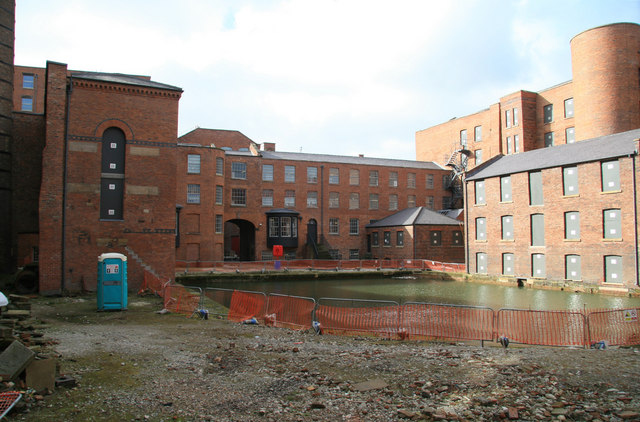 The interior of the quadrangle of Murray's Mills in Ancoats, Manchester. In the foreground is the private basin attached to the Rochdale Canal.